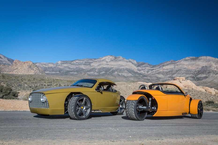 Vanderhall Laguna Carbon-Fiber Bodied Three-Wheeled Autocycle